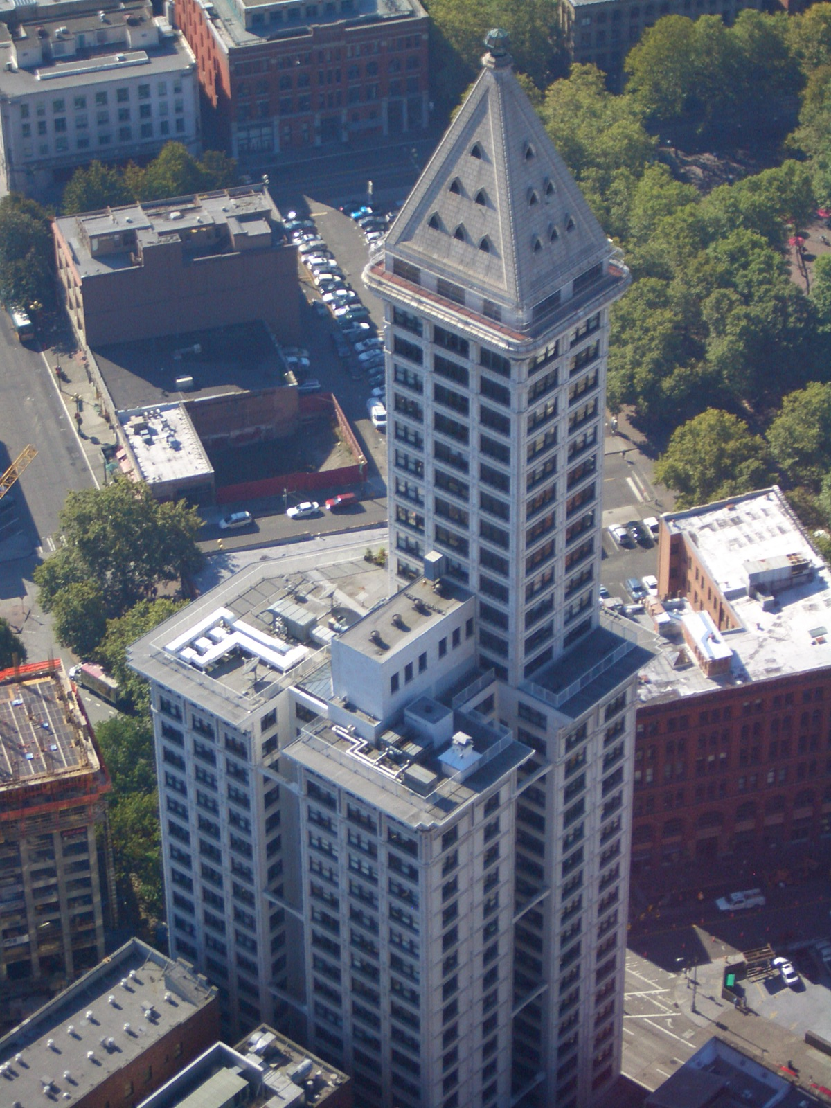 Smith Tower in Seattle seen from the observation deck of Columbia Center.